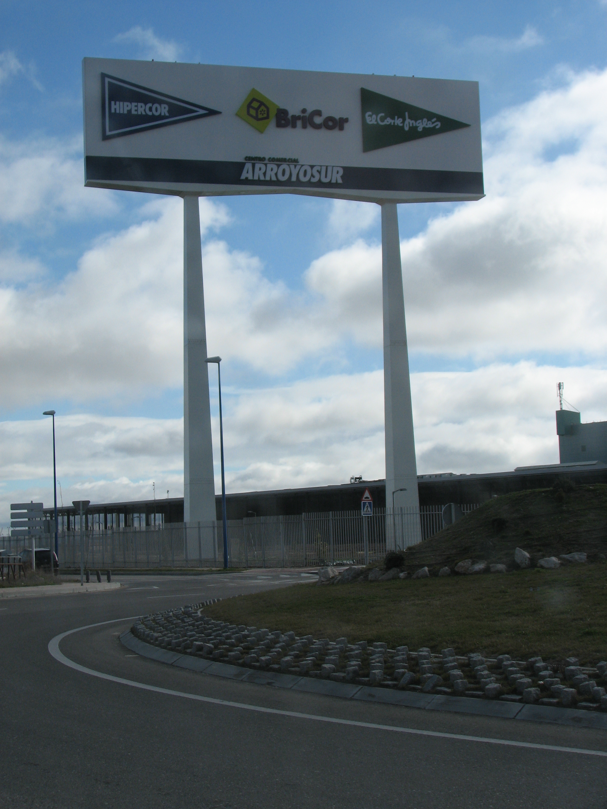 Biposte Centro Comercial Arroyosur. Located at Leganés. Madrid. Spain